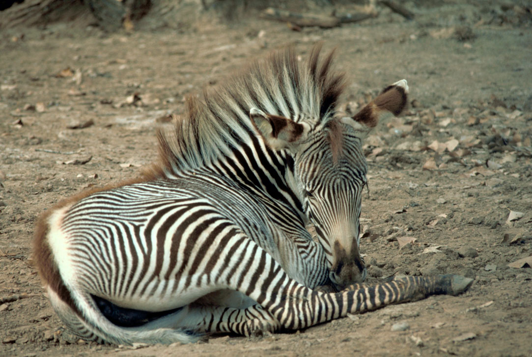 Grevy's Zebra